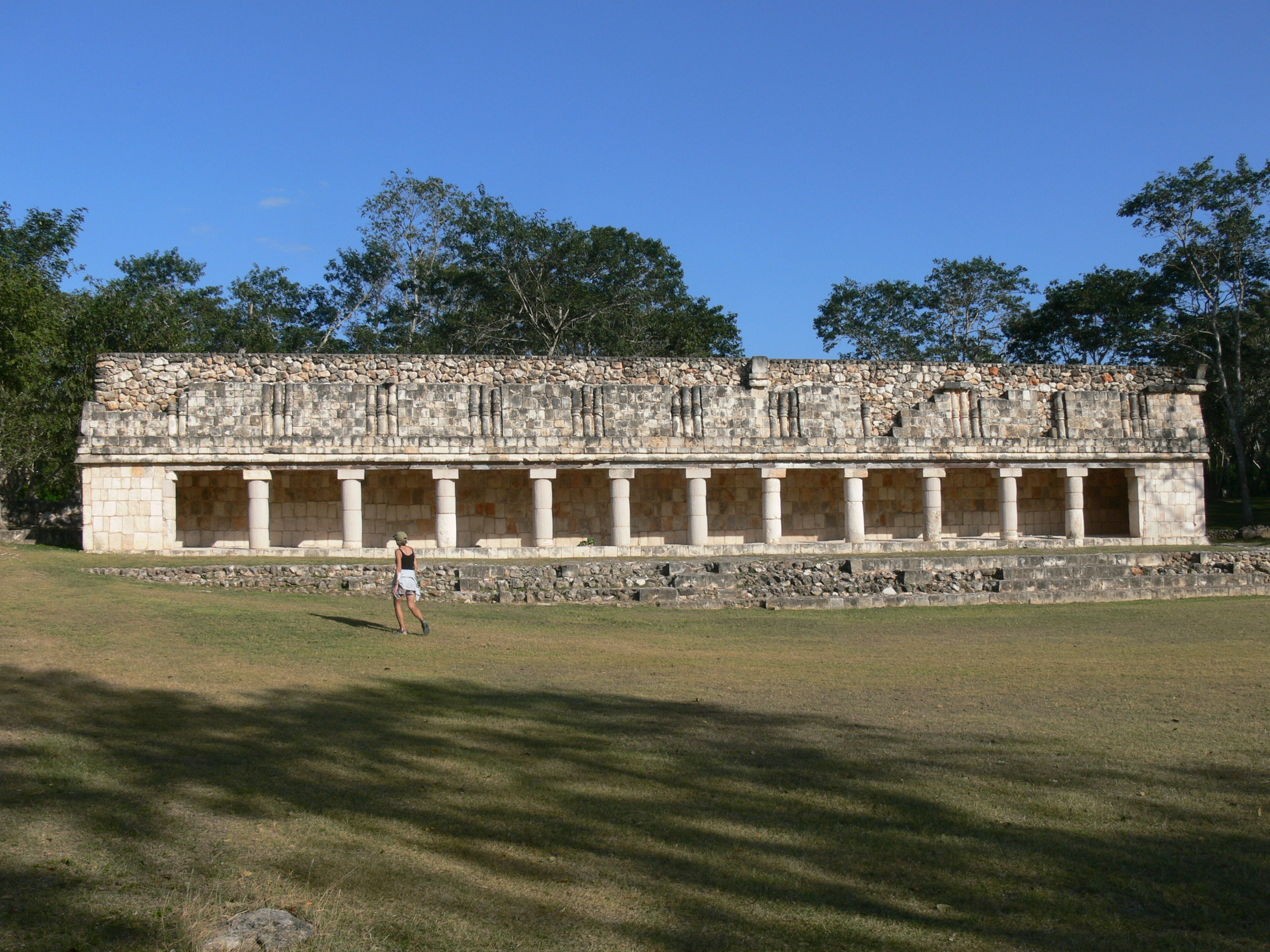 Uxmal ( Yucatan ). Small porticus